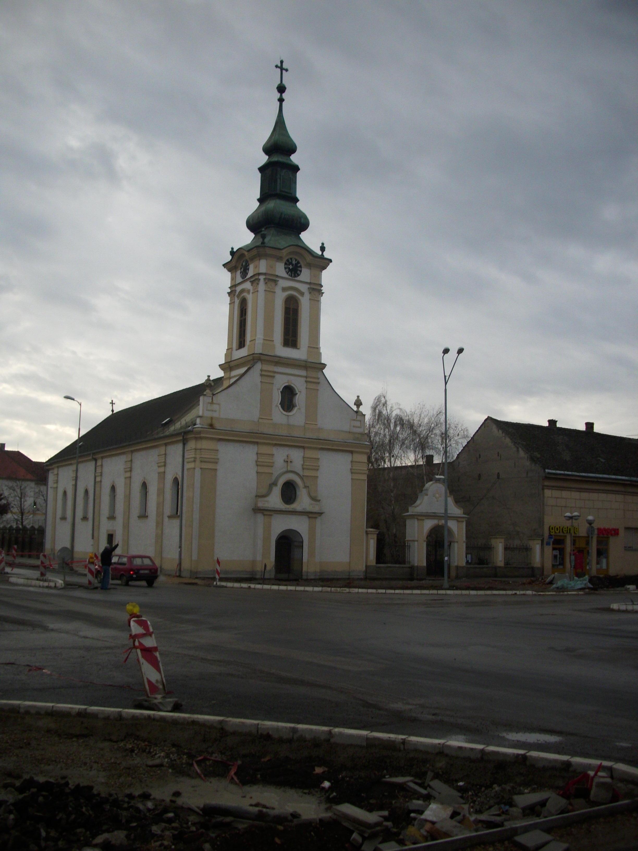 Slovak evangelical church